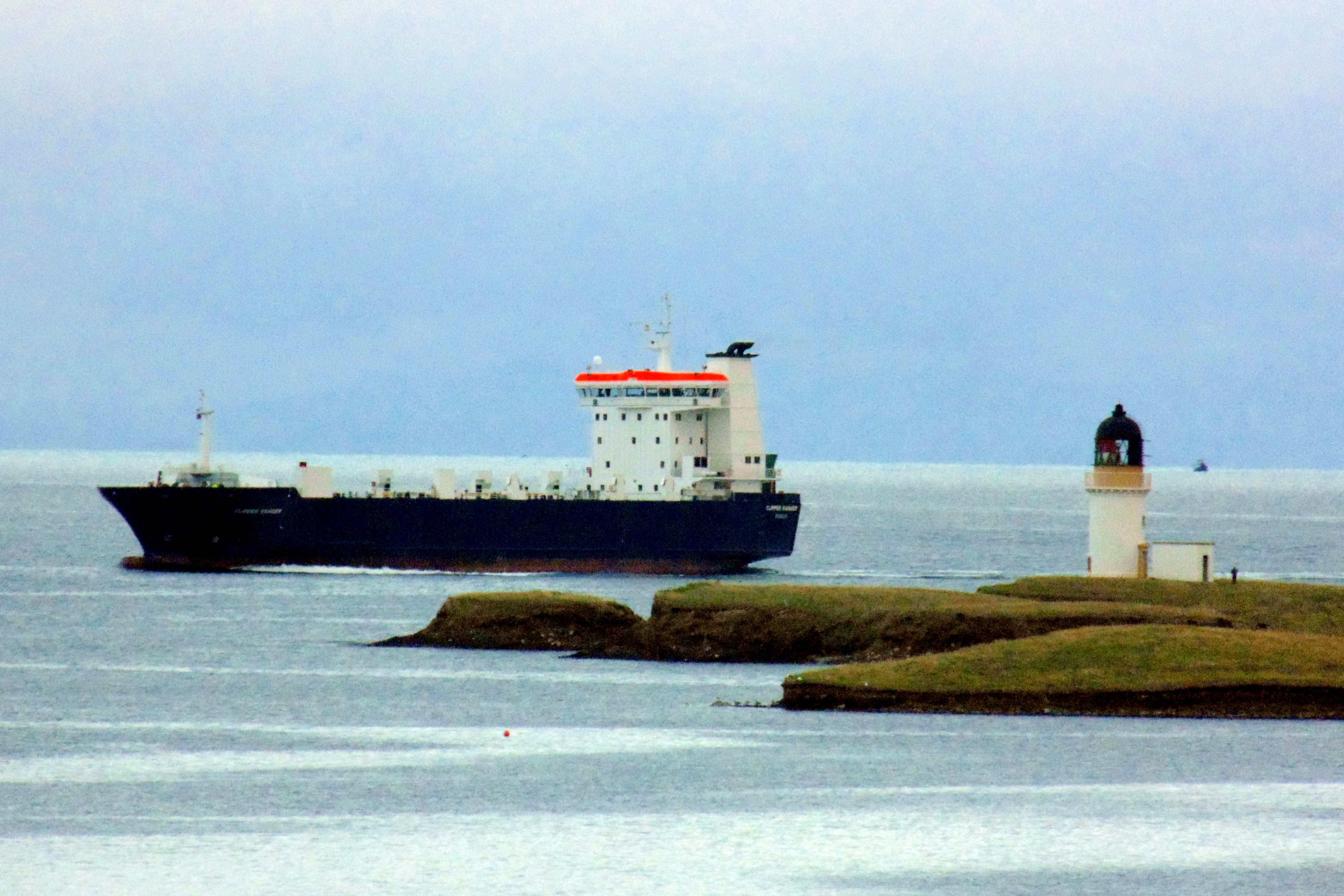 MS Clipper Ranger arriving into Stornoway for the first time to undertake berthing trials, prior to replacing MV Muirneag on the Stornoway to Ullapool freight service.